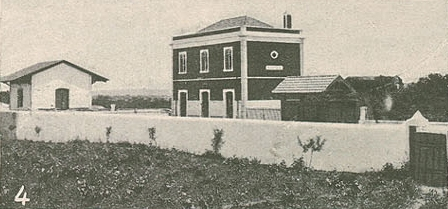 Mexilhoeira Grande railway station under construction, in Portugal. This image was published on the Ilustração Portuguesa magazine No. 589, of the 5th June 1917, and scanned by the Hemeroteca Municipal de Lisboa.